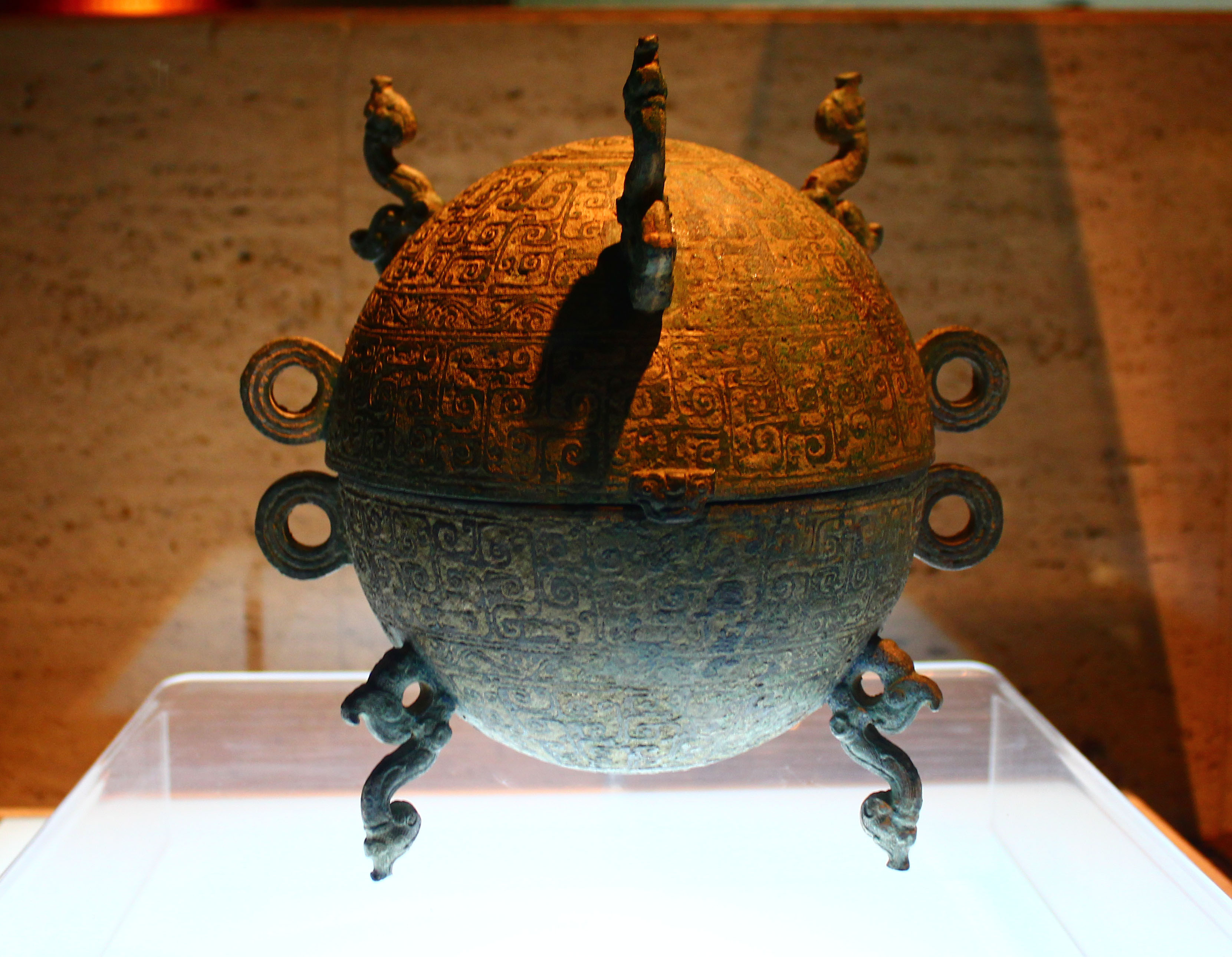 Bronze dui vessel with inlaid geometric cloud pattern,Warring States period,found in Banjiugang,Zigui County,Hubei Province,China.Hubei Provincial Museum